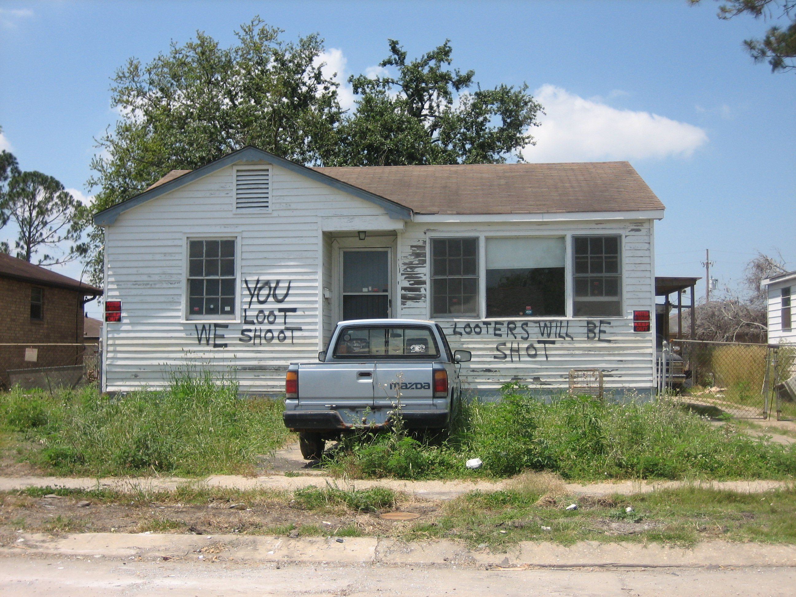 New Orleans after Hurricane Katrina: House in formerly flooded neighborhood of Eastern New Orleans has "You Loot We Shoot" notice. Mazda pickup truck out front.